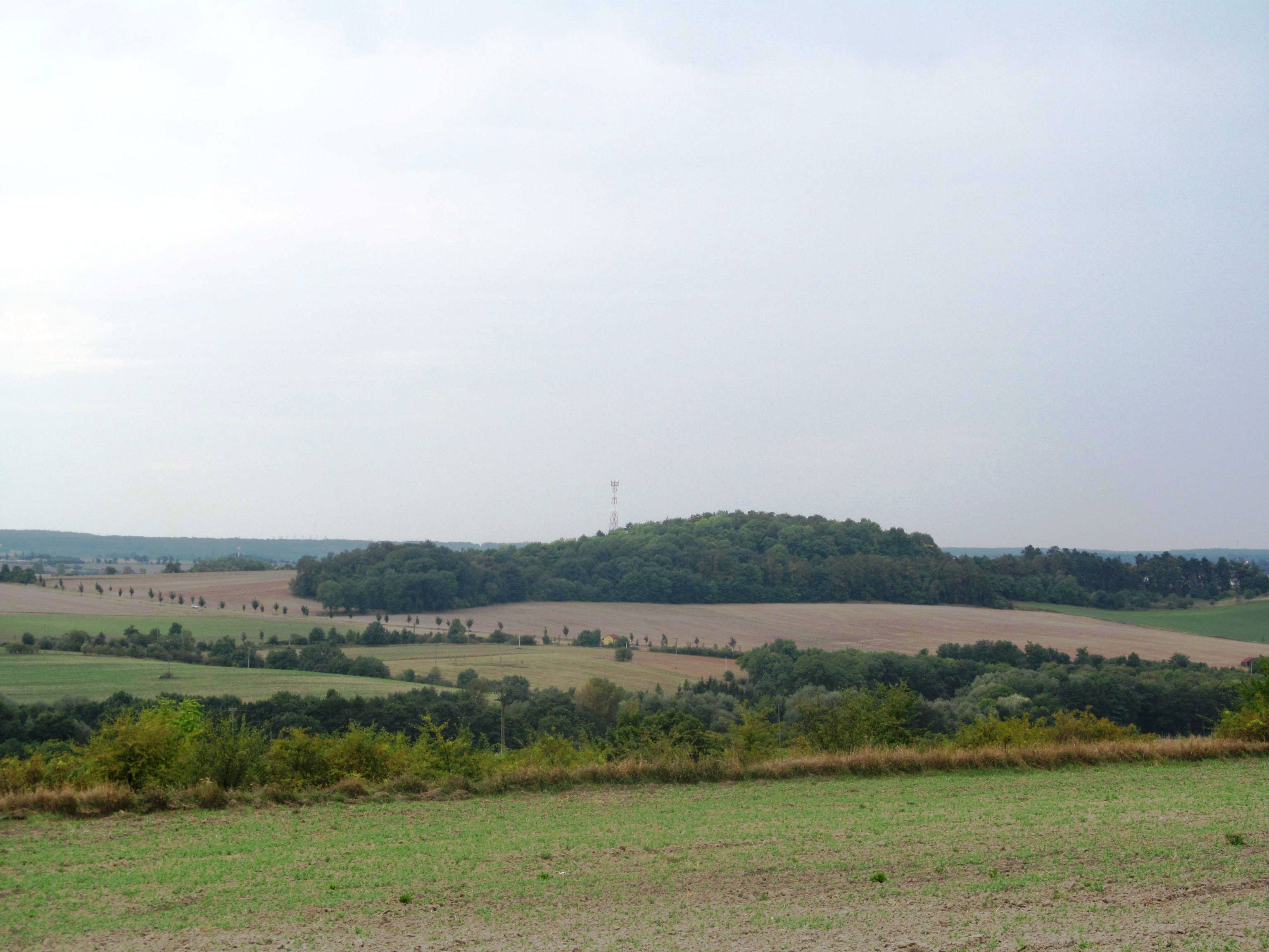 Řípec hill from Dřínov